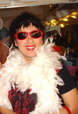 Meritorious Artists Thanh Thuy at an event in Vietnam